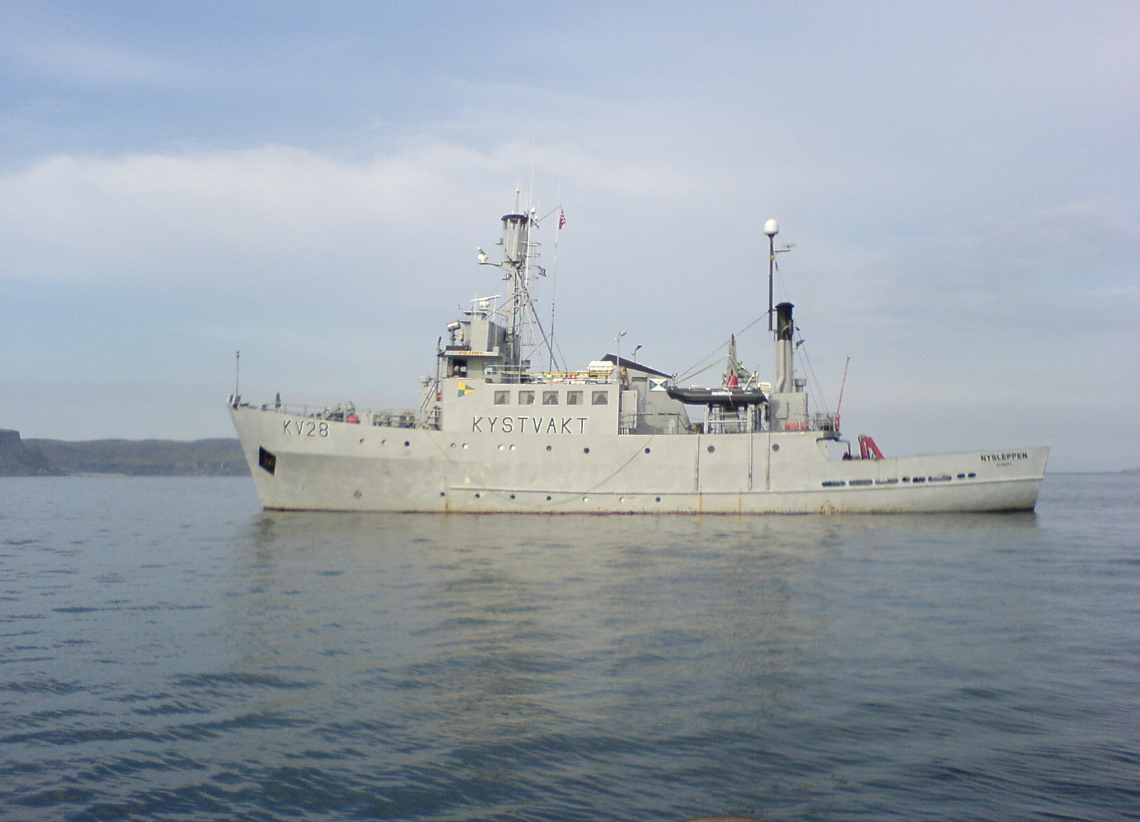 KV Nysleppen